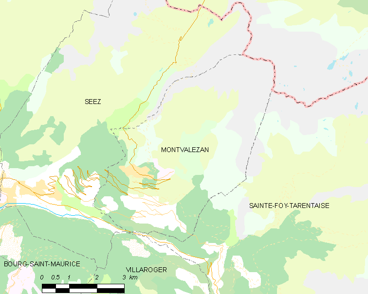 Map of French municipality